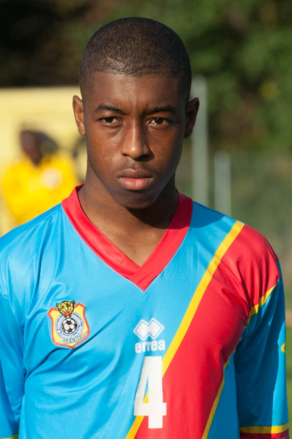 U21 Austria - DR Congo, 2014-10-12: Presnel Kimpembe